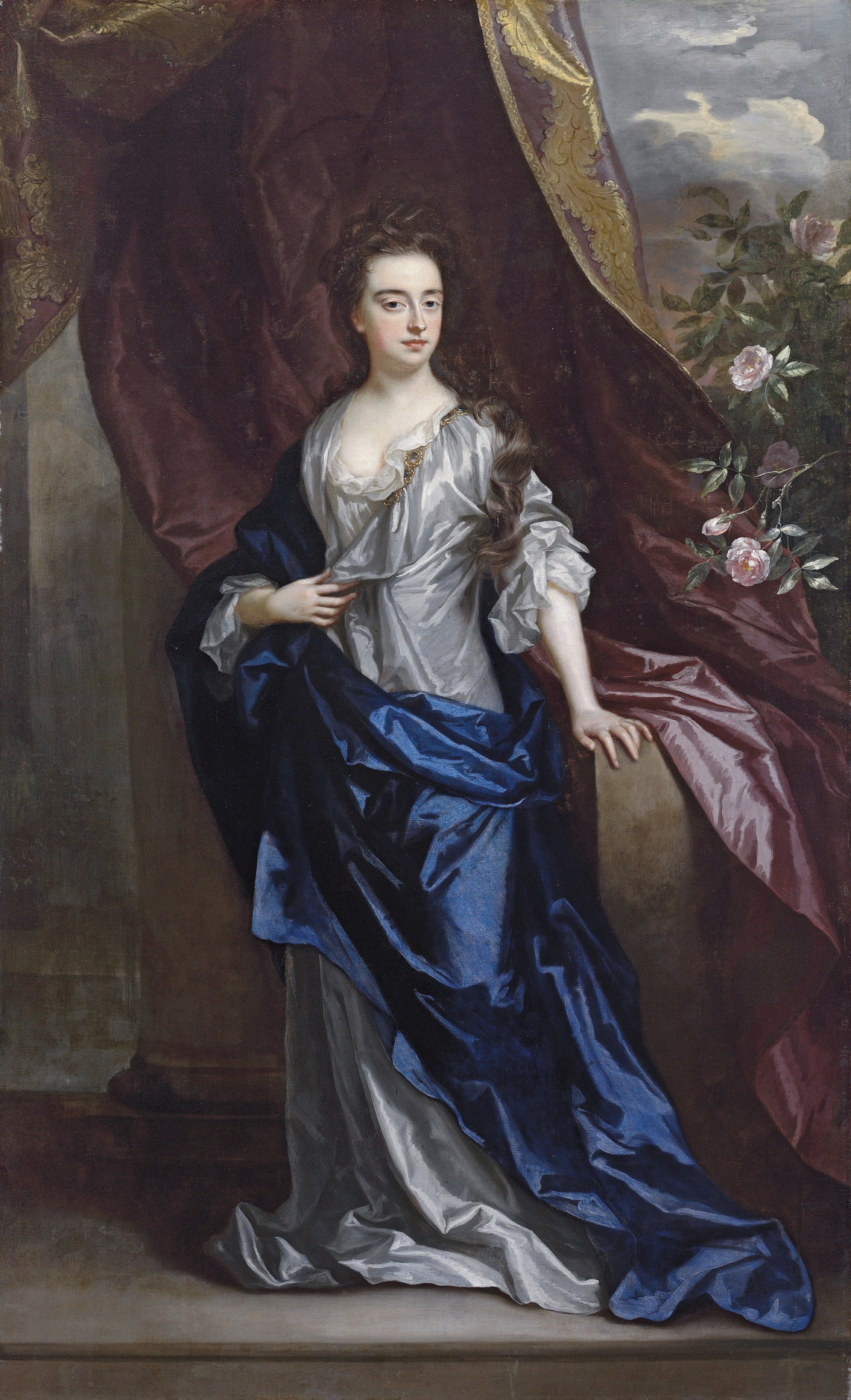 Portrait of Elizabeth Colyear, Duchess of Dorset (1687-1768); wife of the 1st Duke of Dorset